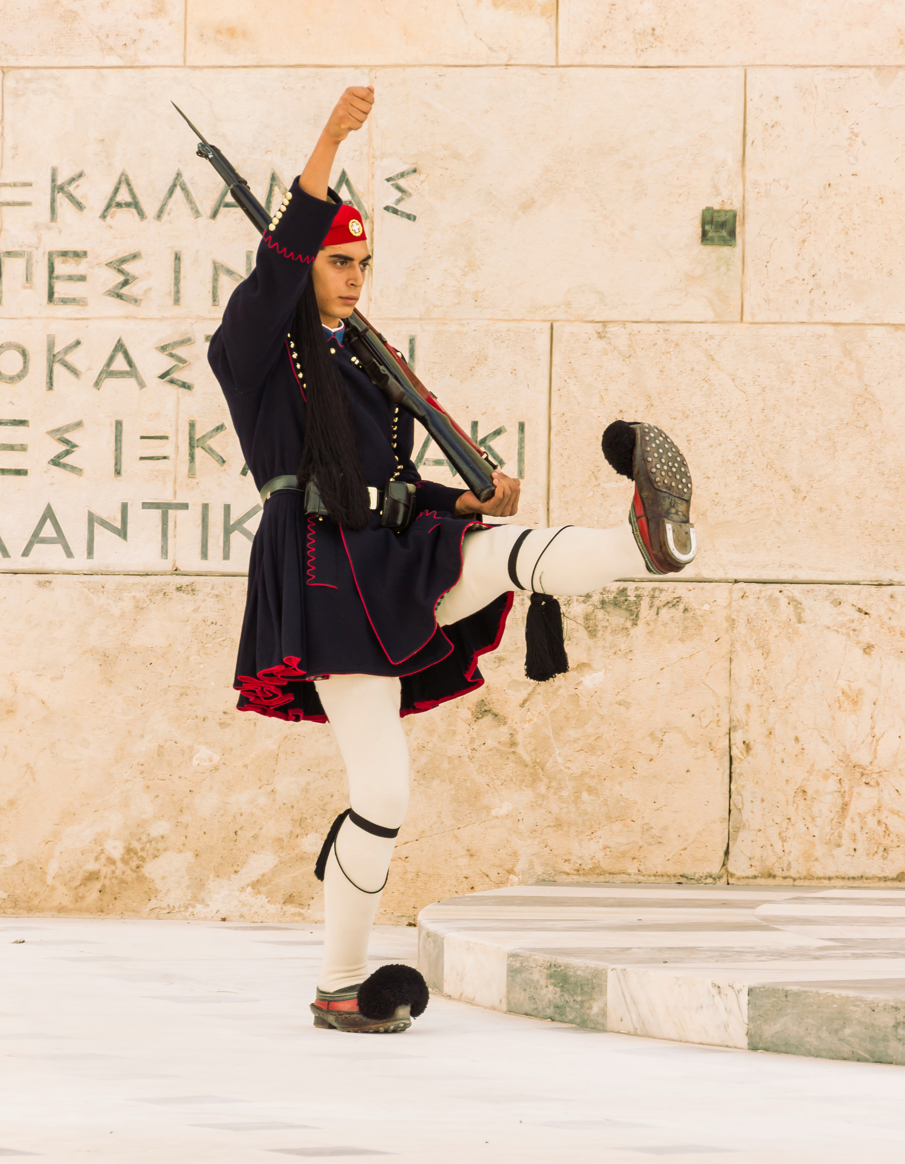 An Evzone marching, Tomb of the Unknown Soldier, Athens, Greece.